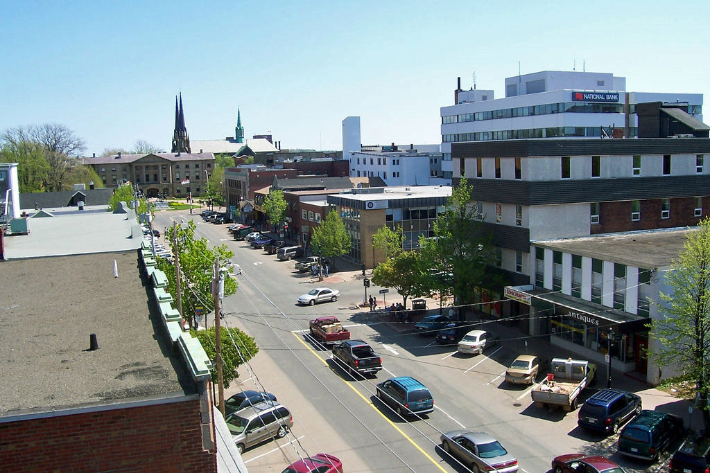 University Avenue in Charlottetown, Prince Edward Island as seen from the roof deck of the Atlantic Technology Centre.